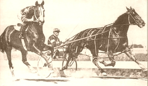 Indianapolis (NZ) a successful Standardbred pacer, seen here attempting to break 2:00 minutes over a mile.